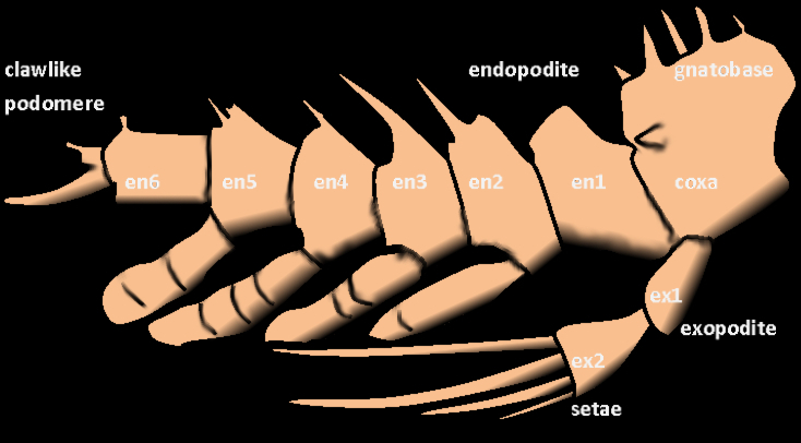 Drawing of the most forward thorax appendix of a late meraspis instar of Agnostus pisiformis, based on Whittington, H. B. et al. (1997). Part O, Treatise on Invertebrate Paleontology. Revised, Volume 1 – Trilobita – Introduction, Order Agnostida, Order Redlichiida, page 90, figure 79. The coxa is connected to the ventral side of the thorax. The side of the coxa facing the midline (upside in the drawing) carries spines and is called the gnatobasis. A pair of opposing gnatobases probably acted as jaws. The coxa also carries two arms: the ventral endopodite, which consist of 7 sections called podomeres (en1 to en6 and the terminal clawlike podomere) and the lateral exopodite, which consists of two podomeres (ex1 and ex2). The endopodite segments carry spines toward the midline and thumblike extensions laterally. The exopodite terminates with four spines called seta (plural setae). Total length ¼ mm.